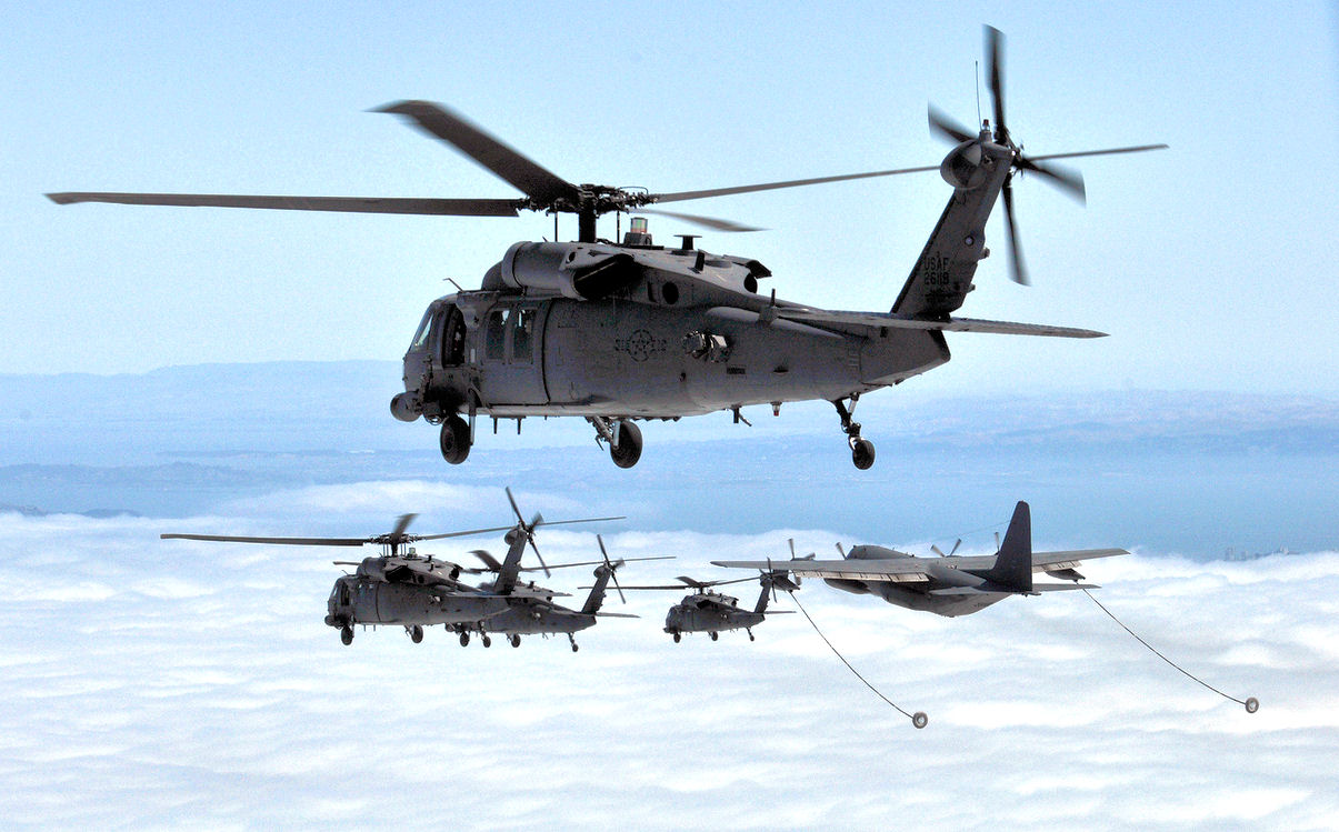 120613-Z-HW473-630 California Air National Guard, HH-60 Pave Hawks, MC-130P Combat Shadows and members of the 129th Rescue Wing, conduct aircraft formation training over Northern California, June 13, 2012. This training marked a successful completion of the Operation Readiness Inspection. (Air National Guard photo by Airman 1st Class John D. Pharr/RELEASED)